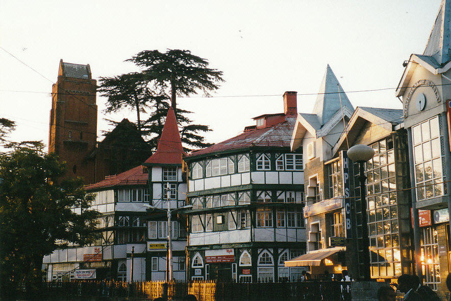 typically british houses in Shimla. Himachal Pradesh, India